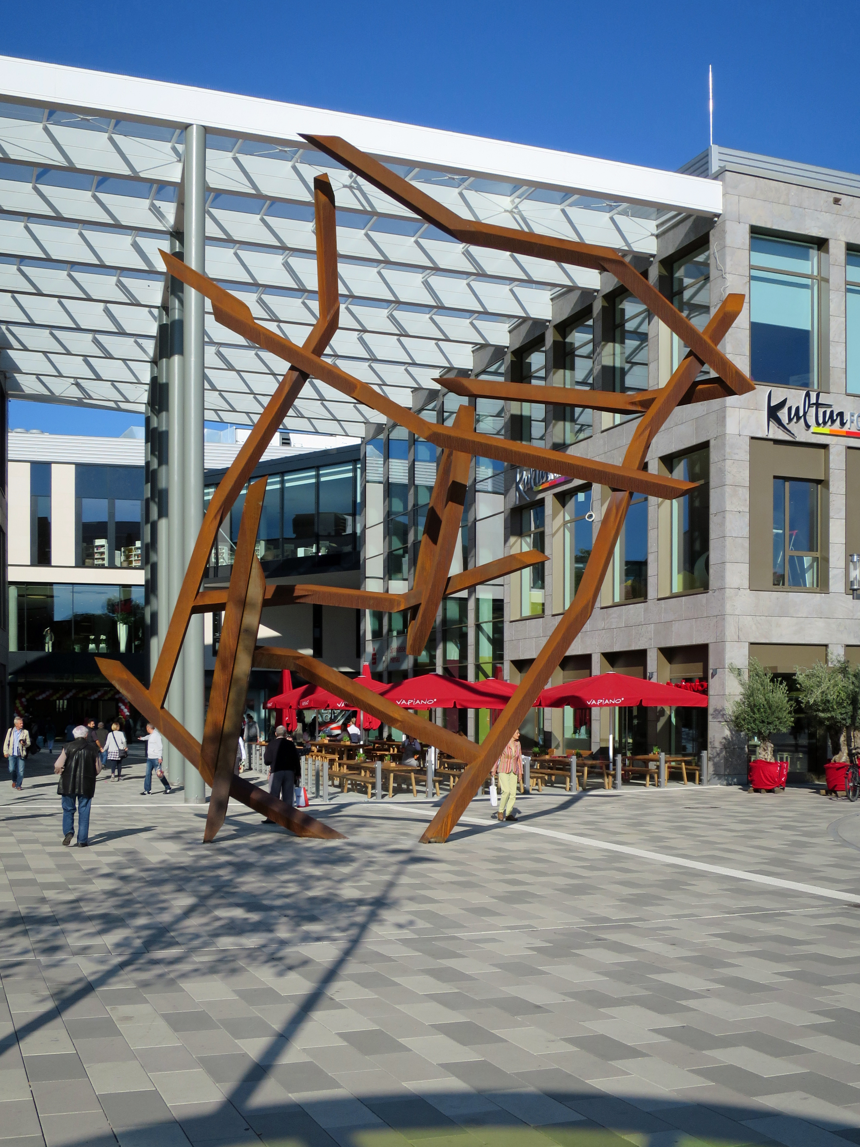 Monument for Moritz Daniel Oppenheim, Hanau, Freiheitsplatz, by Robert Schad